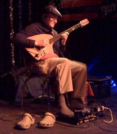 This a photograph taken via iPhone by Nate Brown during a performance by English guitarist Adrian Legg at the Thirsty Ear Tavern in Columbus, Ohio. The photo was published on Flickr and has an attribution license. The image here has been cropped and photoshopped to remove a distracting lamp above Legg's head and to focus in on the performer. This derivative work is allowed by the Flickr license which requires attribution of the work and of any derivatives. Custom guitar built by Bill Puplett [1][2] — resembling Klein Electric Guitars